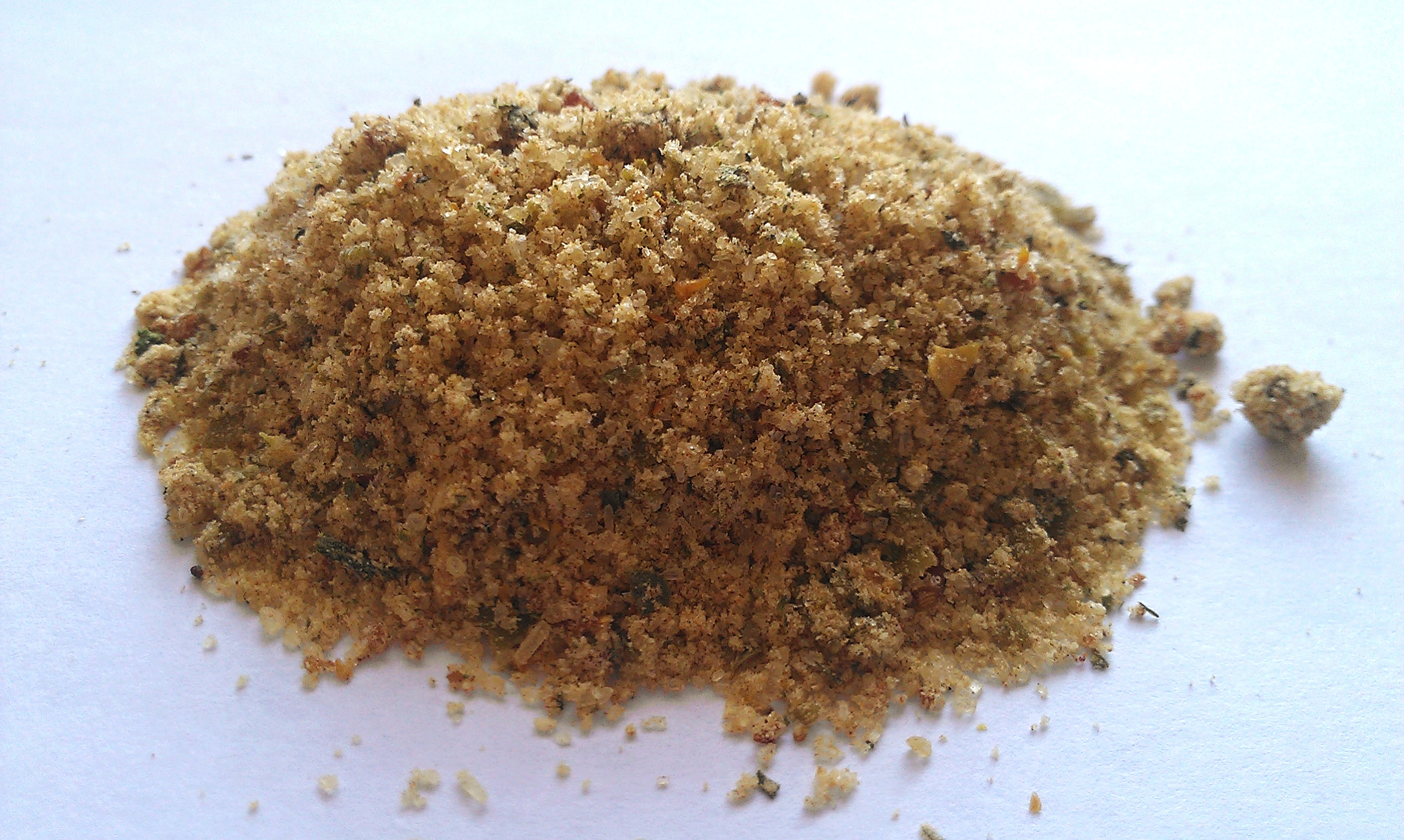 Vegeta